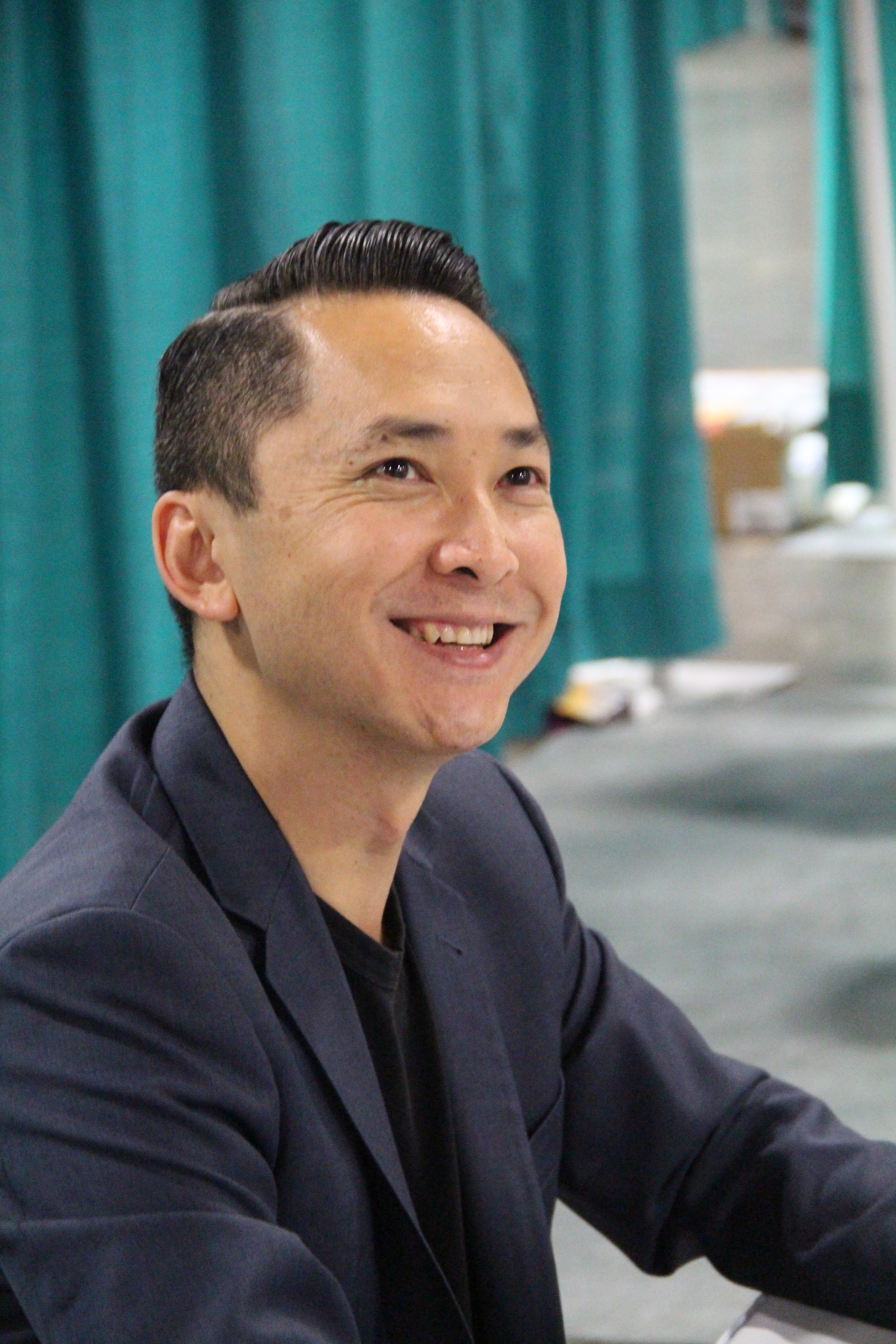 2015 Library of Congress National Book Festival September 5, 2015 Washington, DC